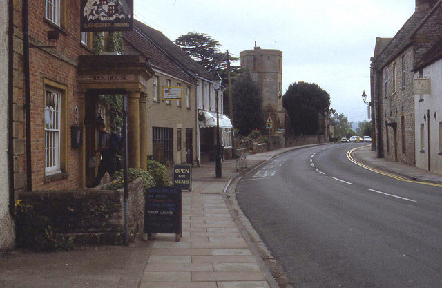 Outside the Ilchester Arms